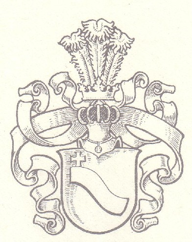 Coat of arms of the german family „von Dobschütz“